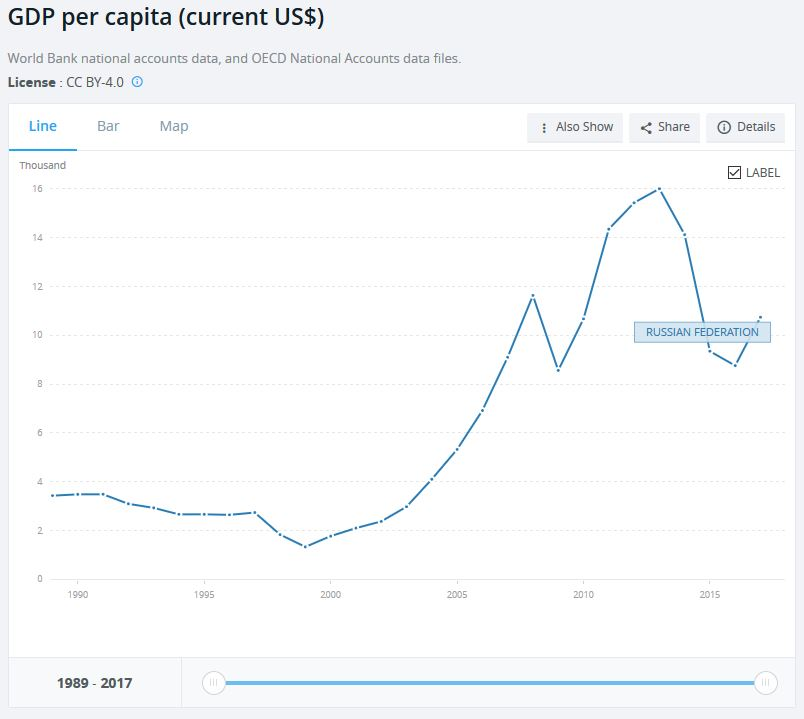 Russian GDP per Capita